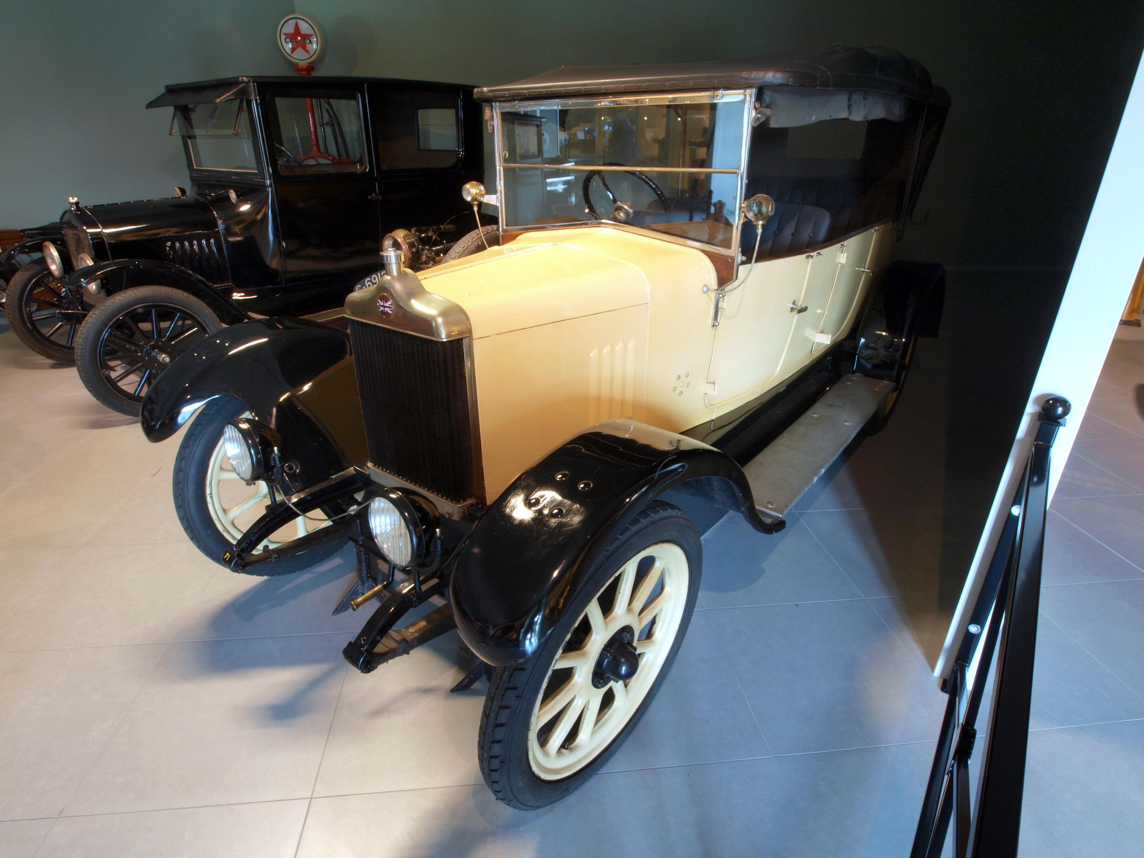 Photographed at the Louwman museum / Louwman Collection, The Netherlands.